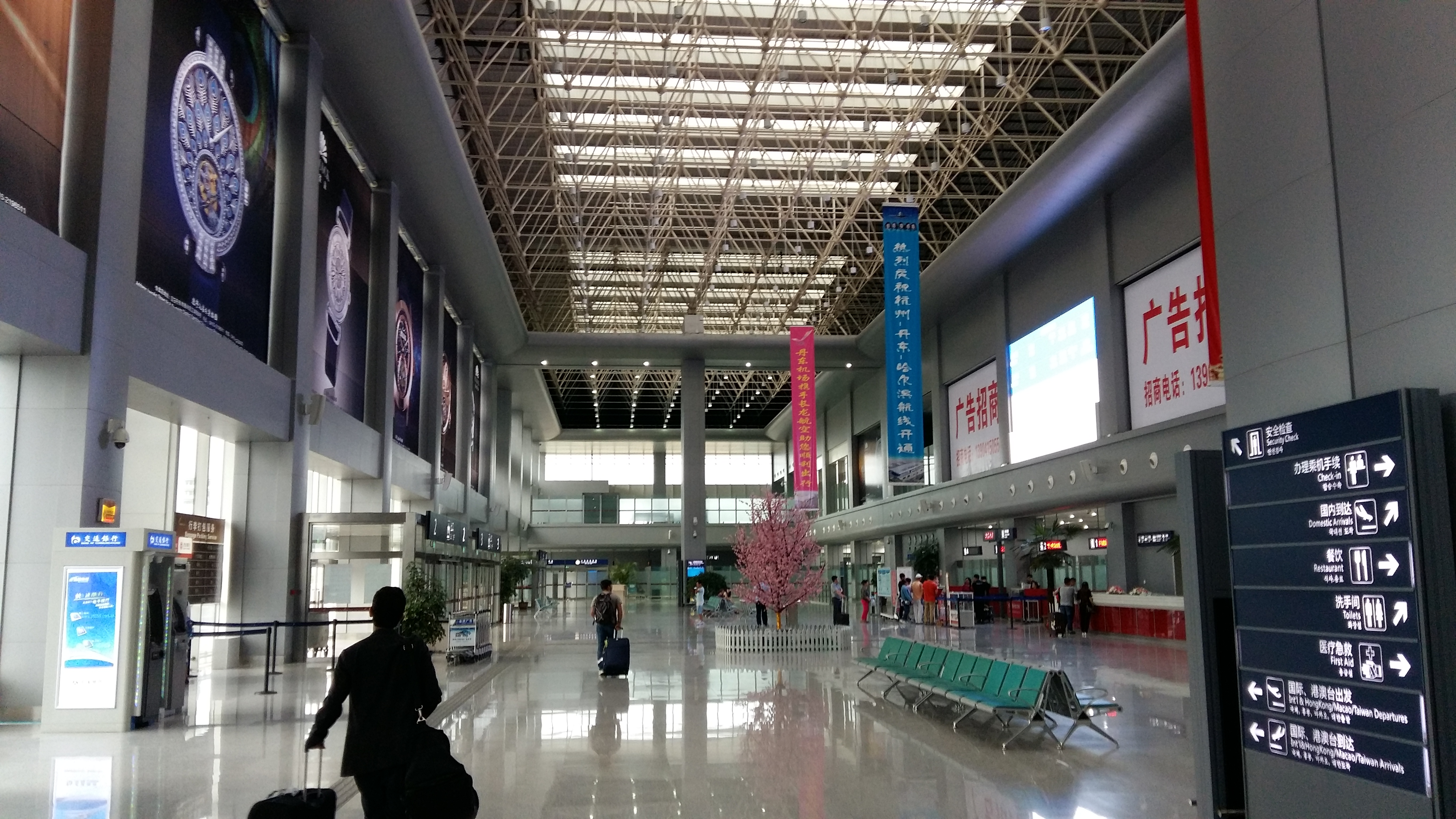 Interior of arrivals hall at Dandong Airport.